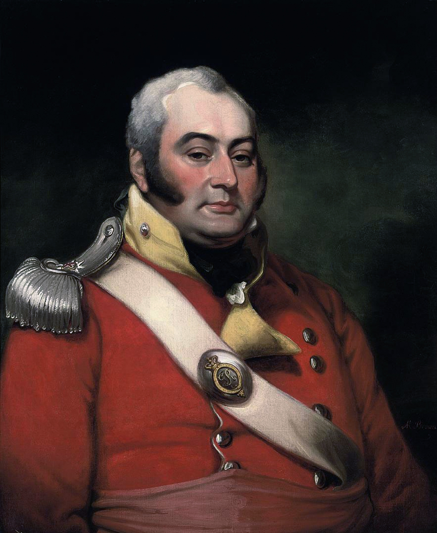 Portrait of George Fermor, 3rd Earl of Pomfret (1768-1830) uniform of a Captain in the Northamptonshire Militia oil on canvas 76.2 x 63.5 cm.